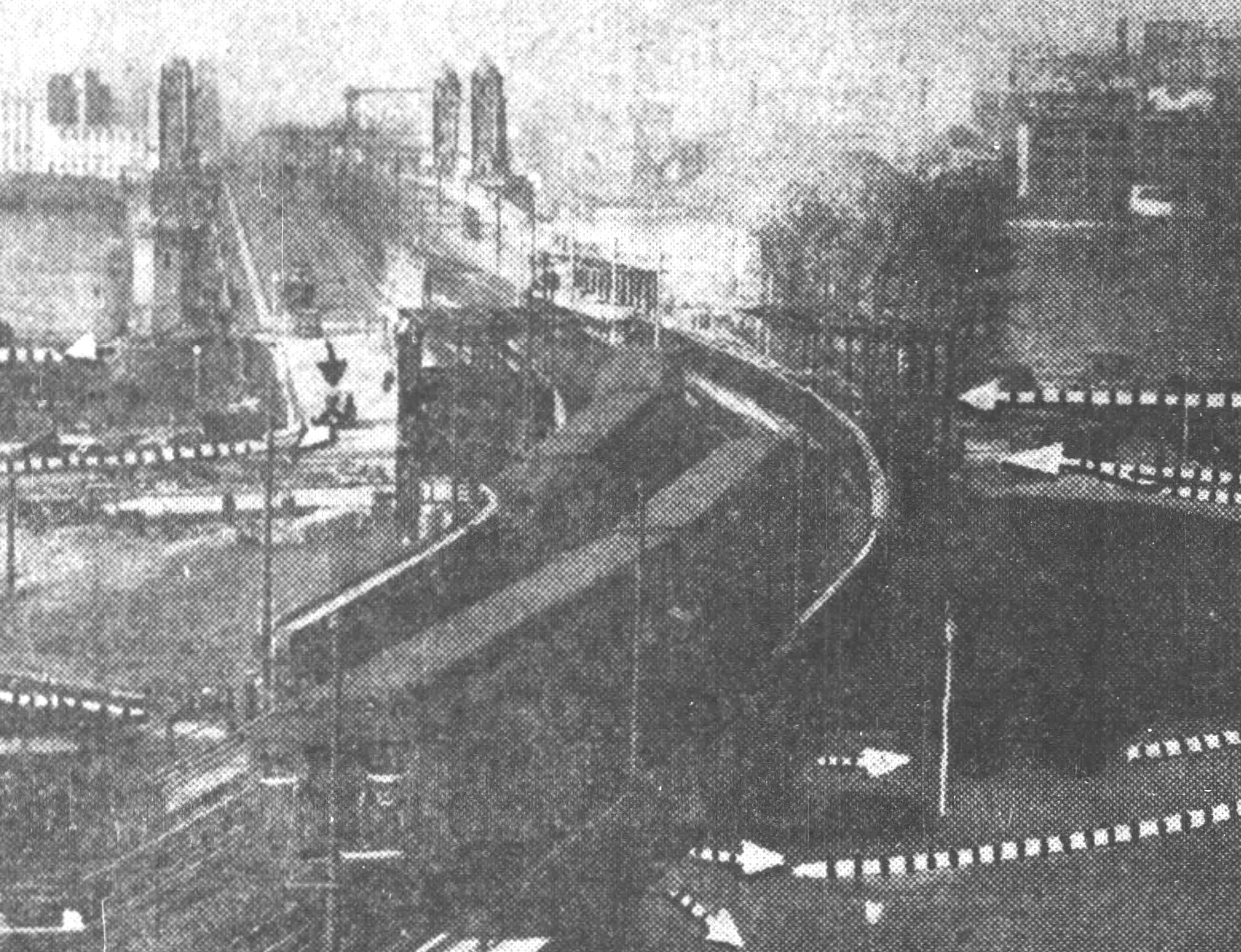 Charles station under construction in November 1931